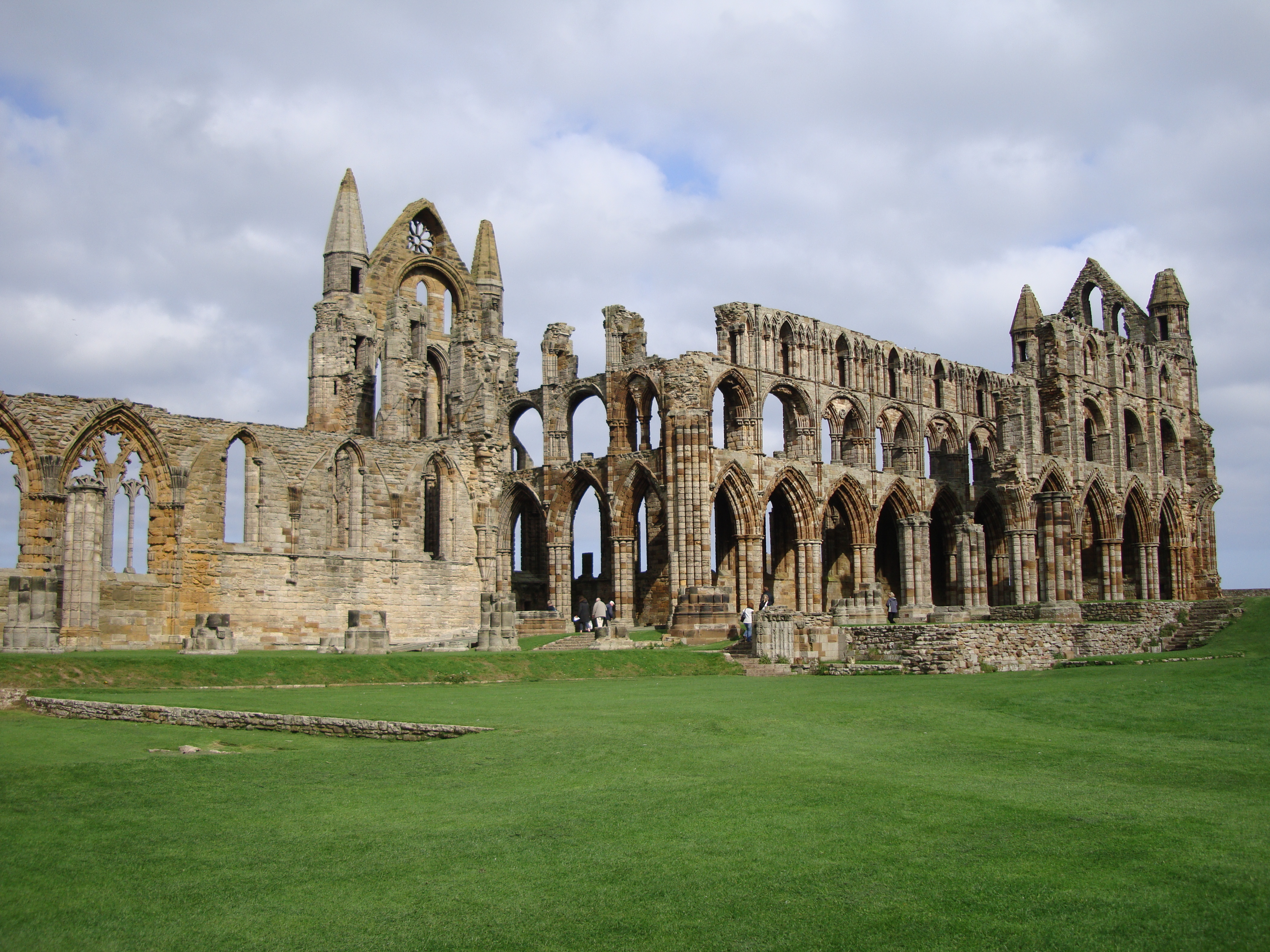 Photograph of Whitby Abbey, North Yorkshire, England